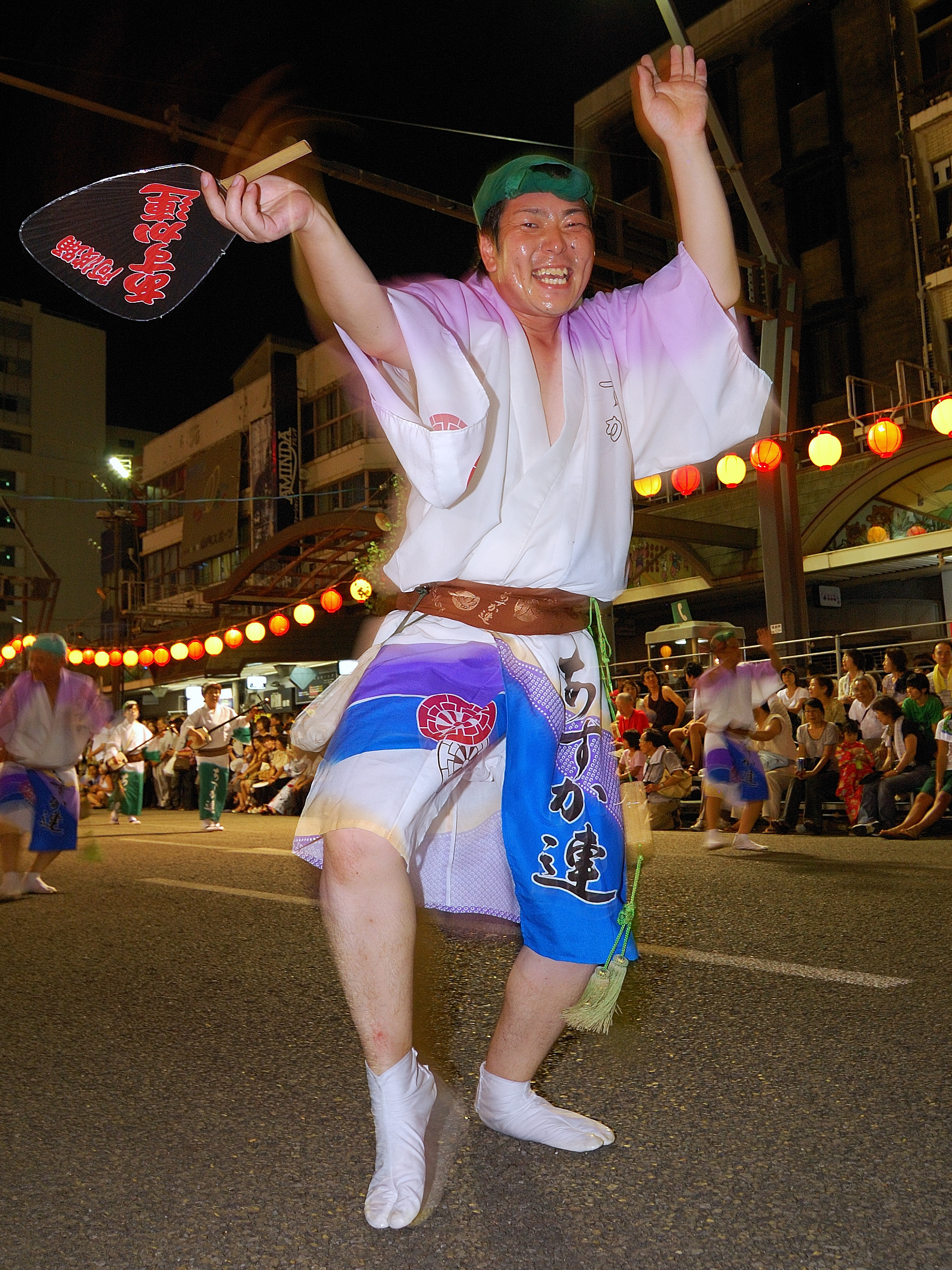 Awa Odori in Tokushima, Japan [2008]. Nikon D50